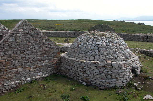 Inismurray, Beehive Hut Early Christian Monastic Round Fort